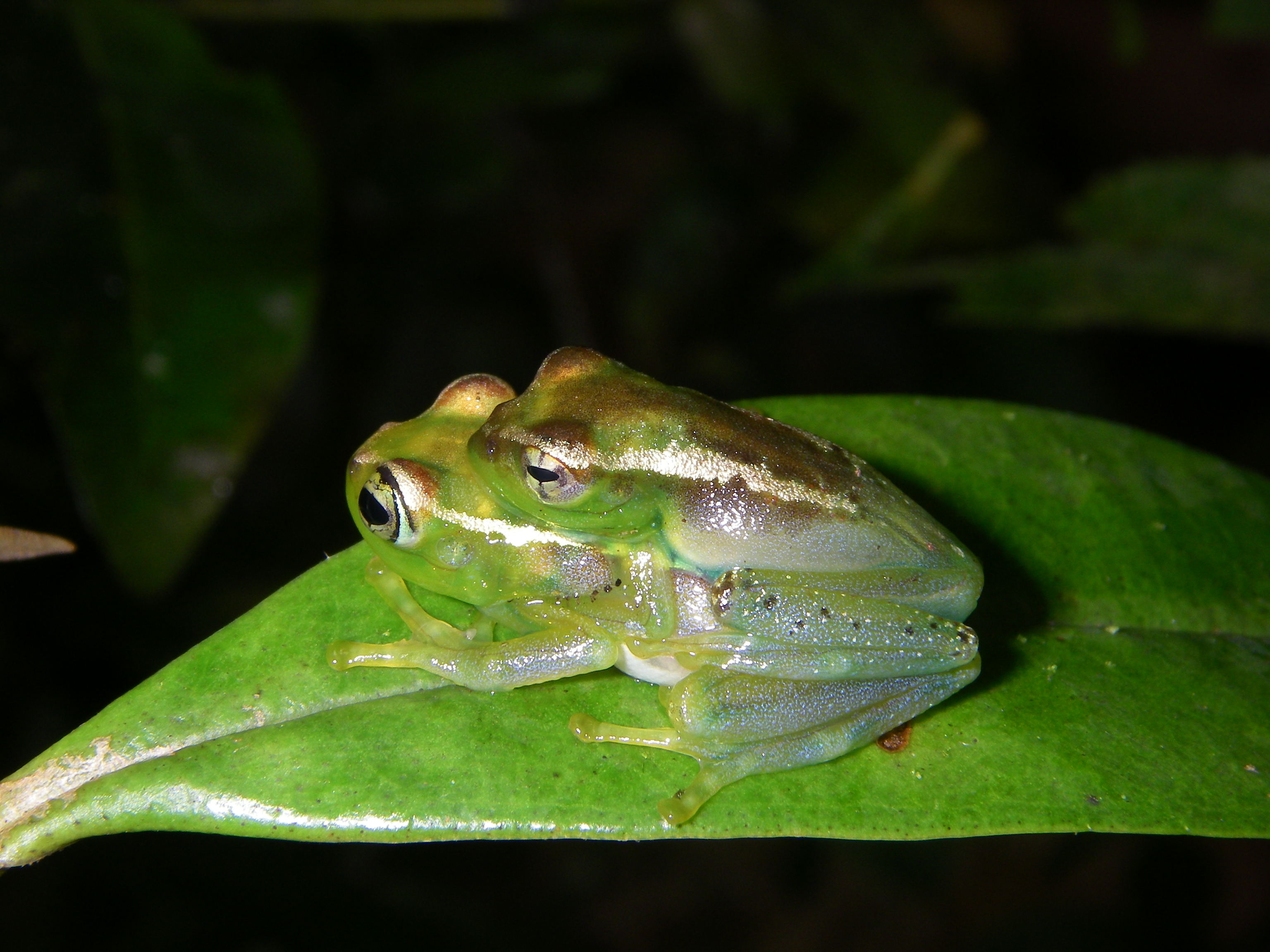 Boophis liliane (Mantellidae), female and male in amplexus; Imaloka, Ranomafana National Park